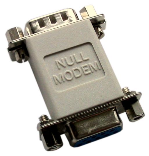 A white null modem, a communication method to connect two DTEs (computer, terminal, printer etc.) directly using an RS-232 serial cable.